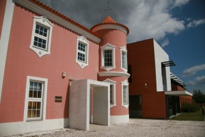 Arquivo Distrital Aveiro